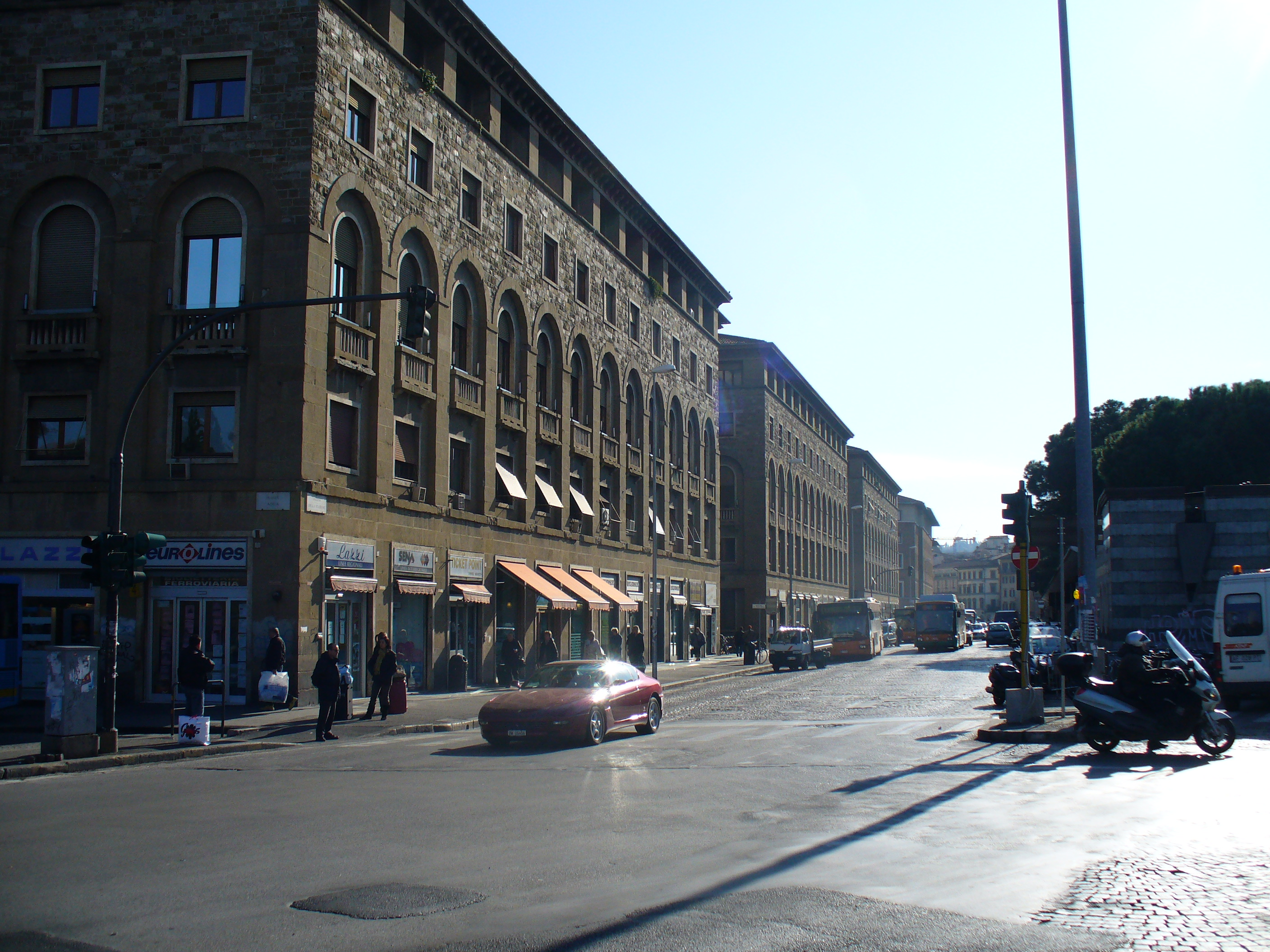 Piazza della Stazione in Florence